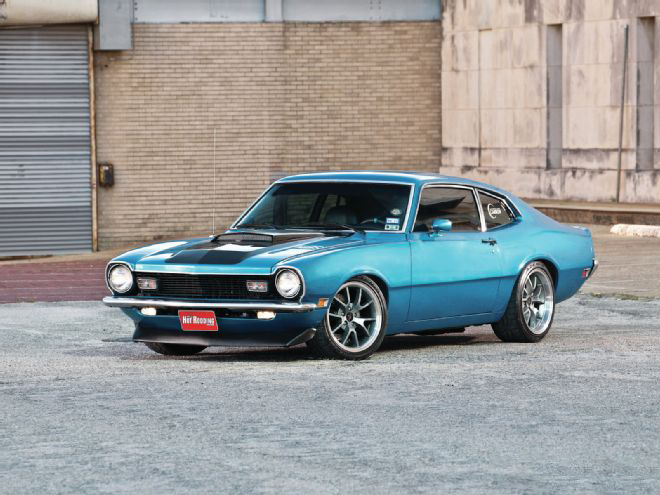 Ford Maverick